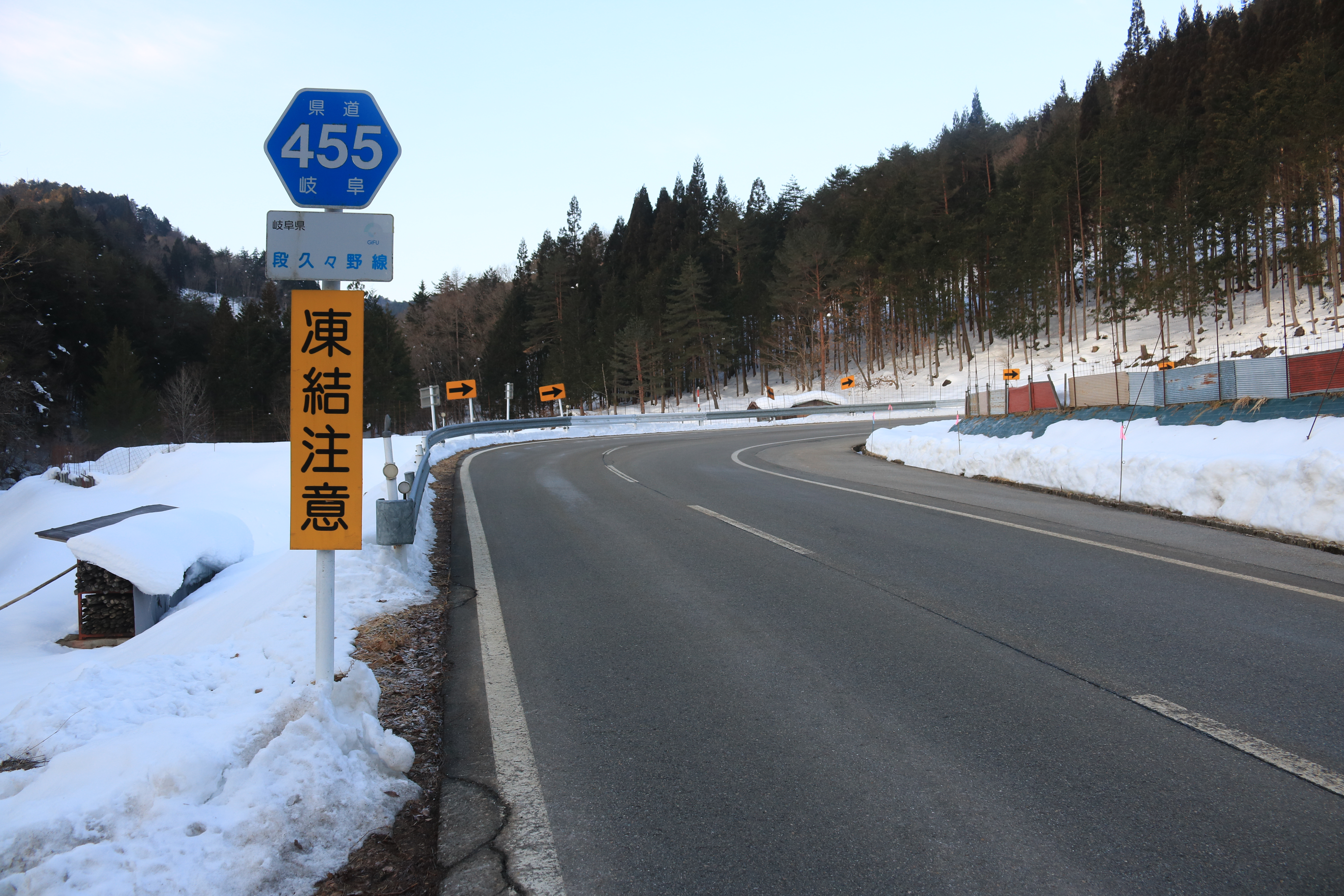 Gifu Prefectural Road Route 455 in Ichinomiyamachi, Takayama, Gifu Prefecture, Japan.